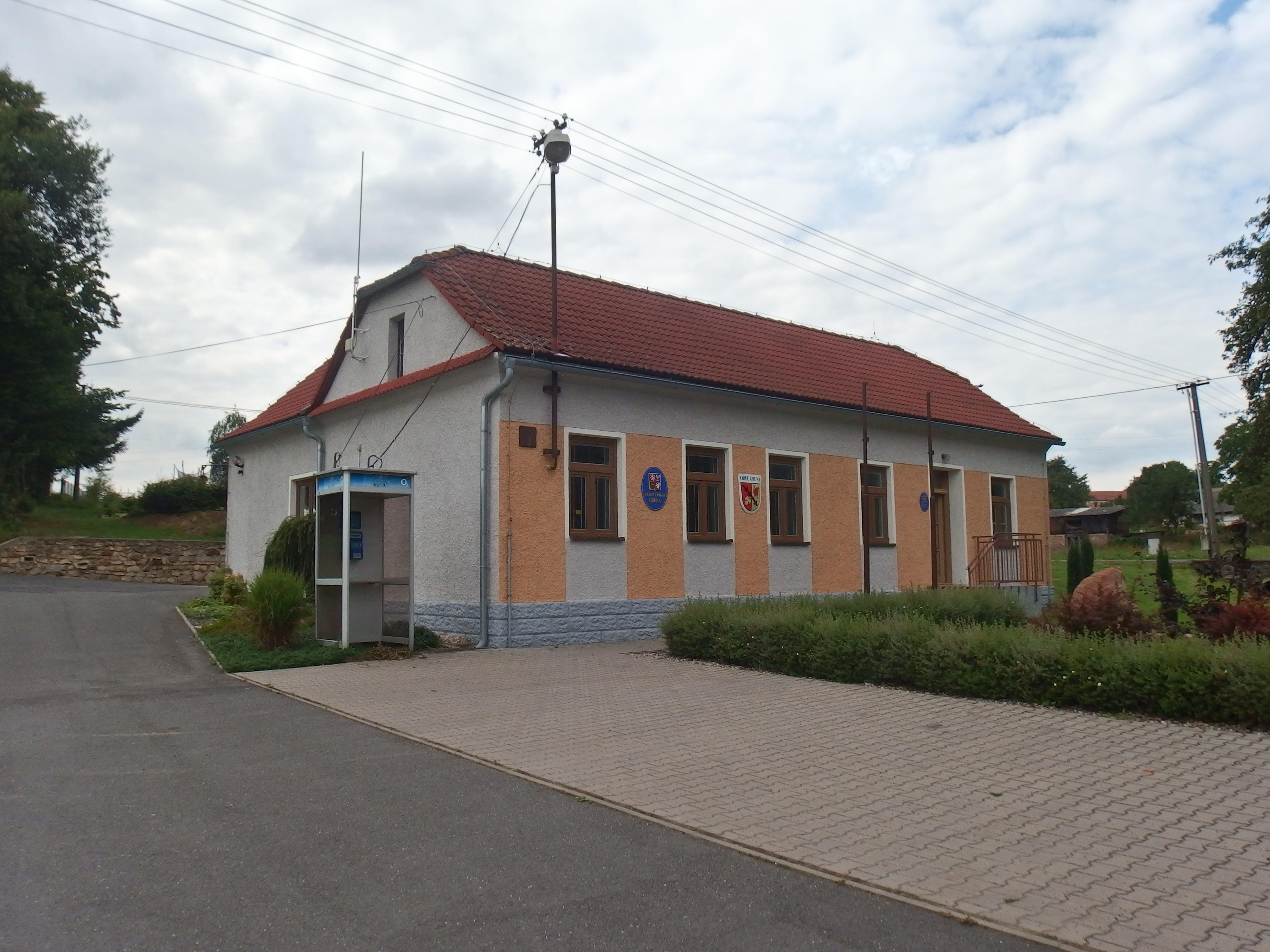 Gruna, Svitavy District, Czech Republic.